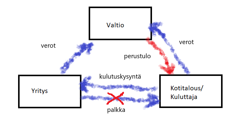 Basic income